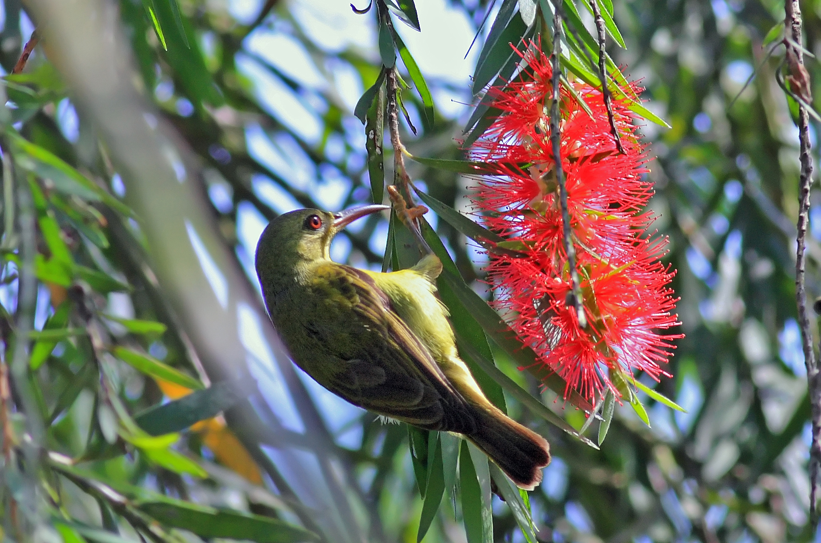 A female Brown-throated Sunbird (or Plain-throated Sunbird) Anthreptes malacensis photographed in the Japanese Garden, Singapore